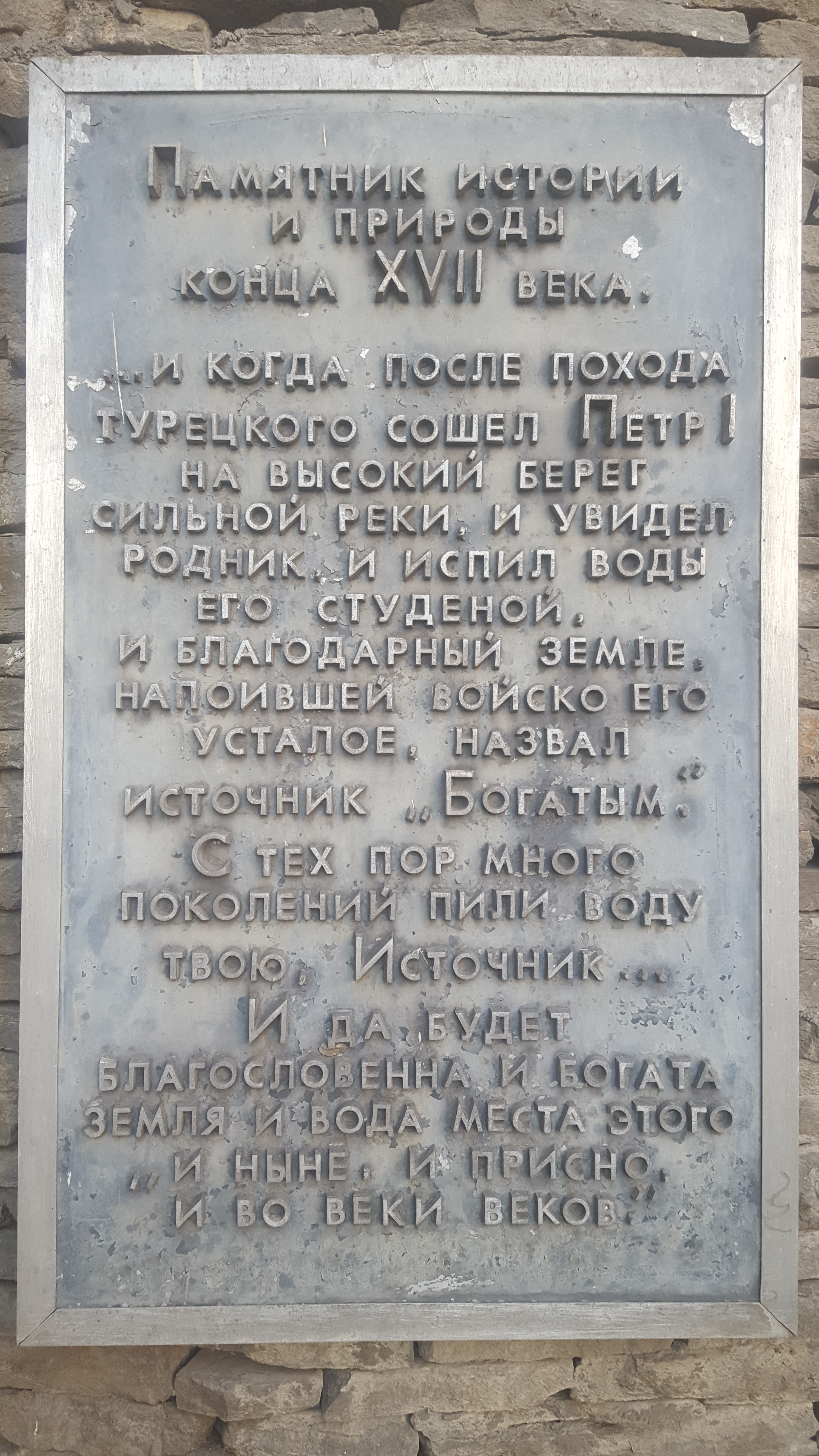 A plaque on the wall of the Bogatyanovsky Well telling a story of this place.